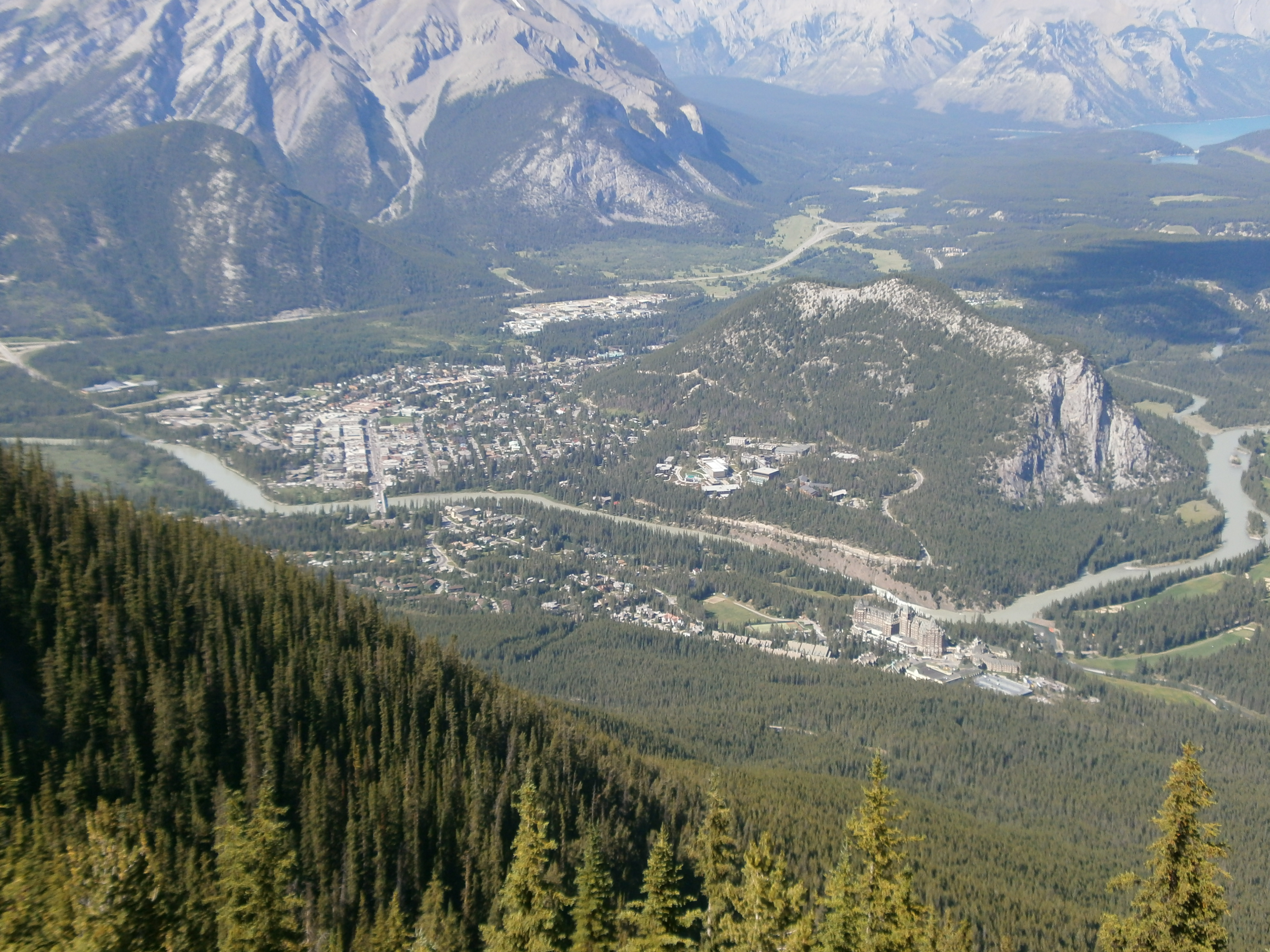 Banff, as seen from the Sulphur mountain